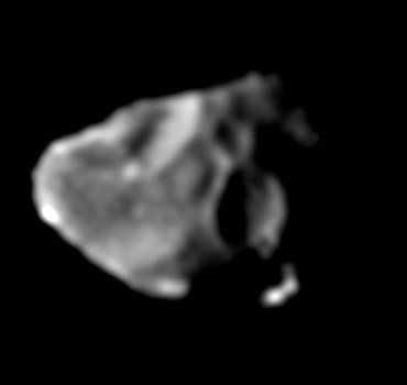 Amalthea